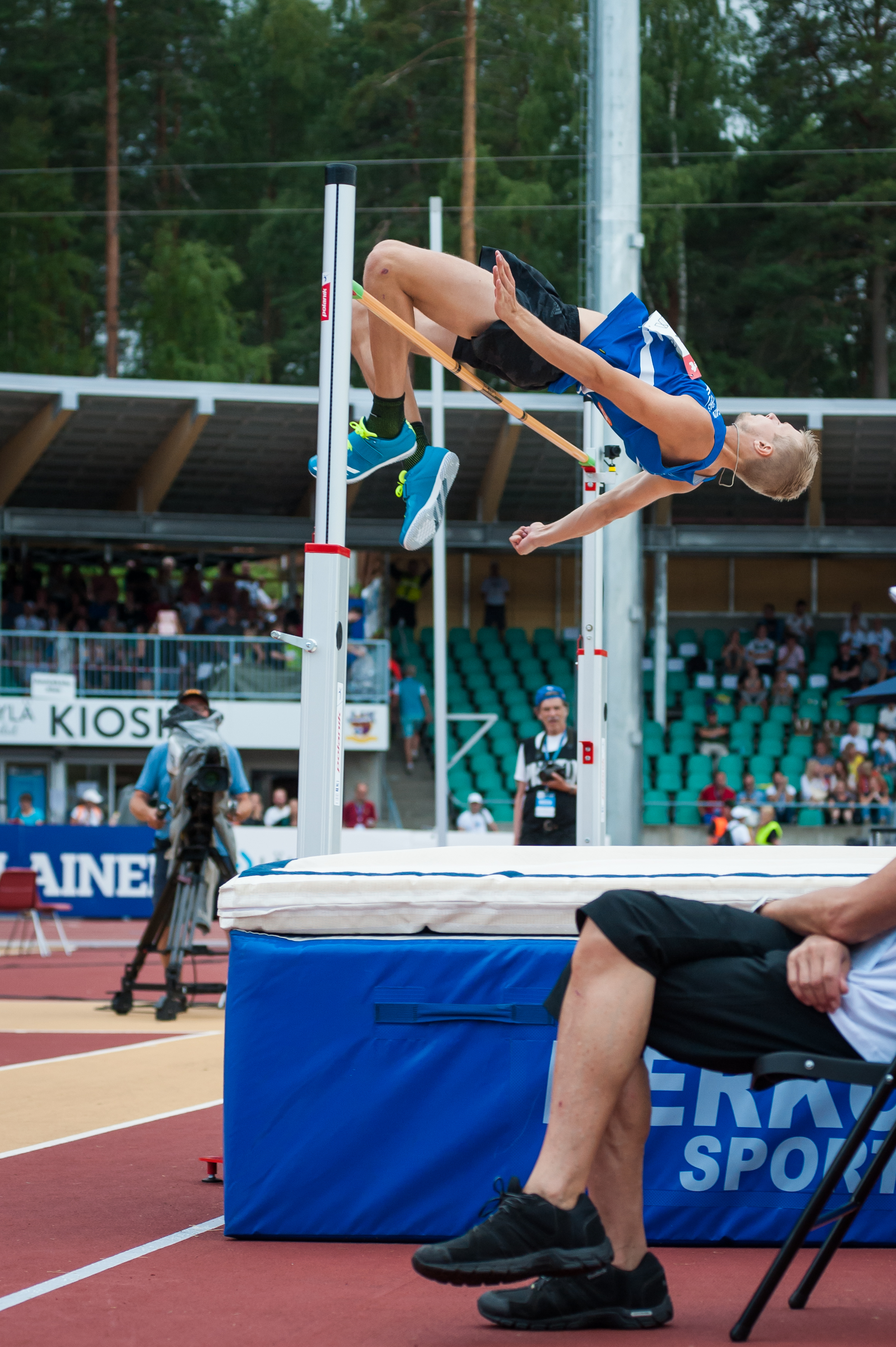 Men's high jump competition at the 2018 Kalevan Kisat, the Finnish championships in athletics, in Jyväskylä, Finland.